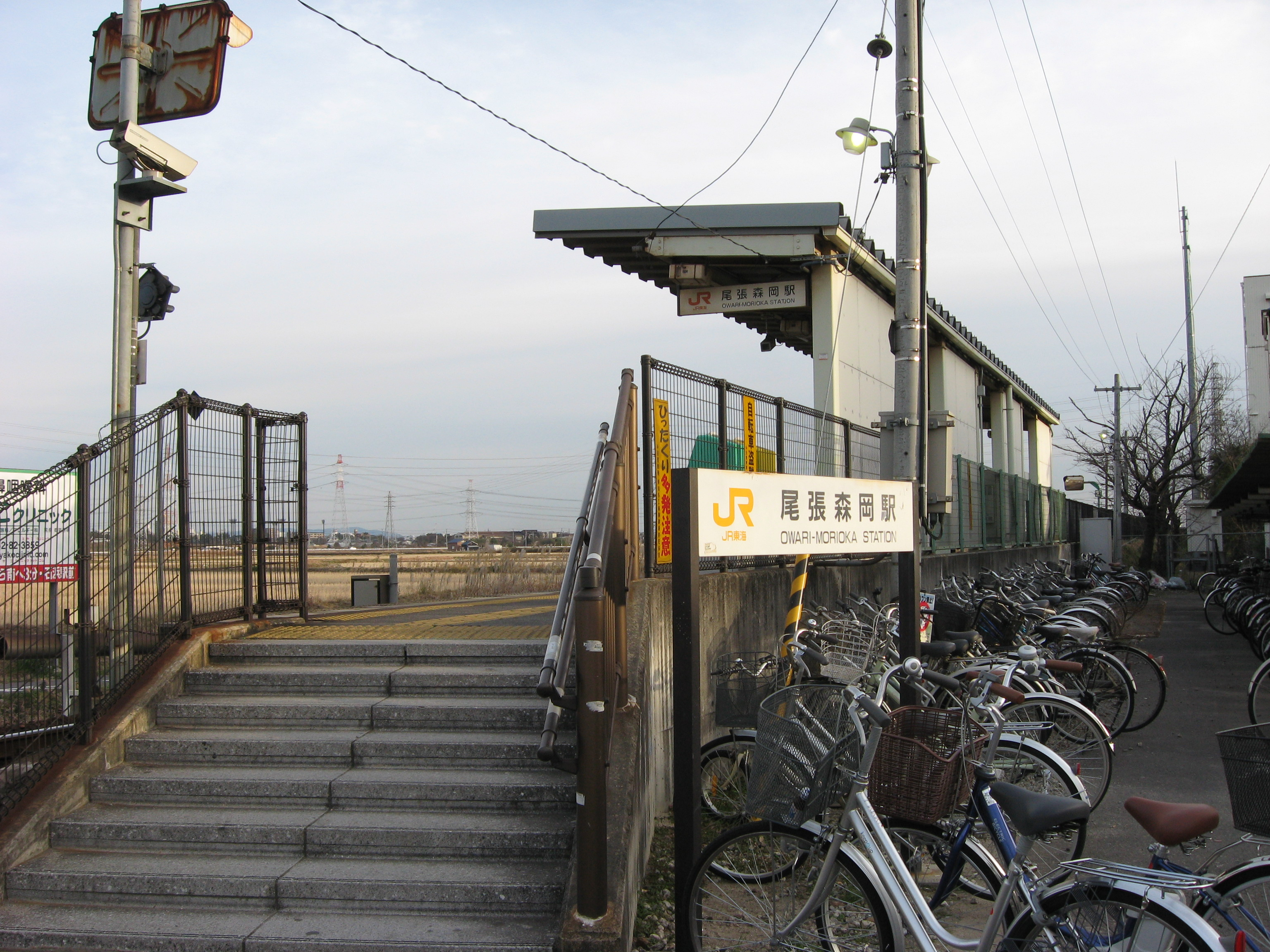 JR Central Taketoyo Line Owari-Morioka Station Entrance